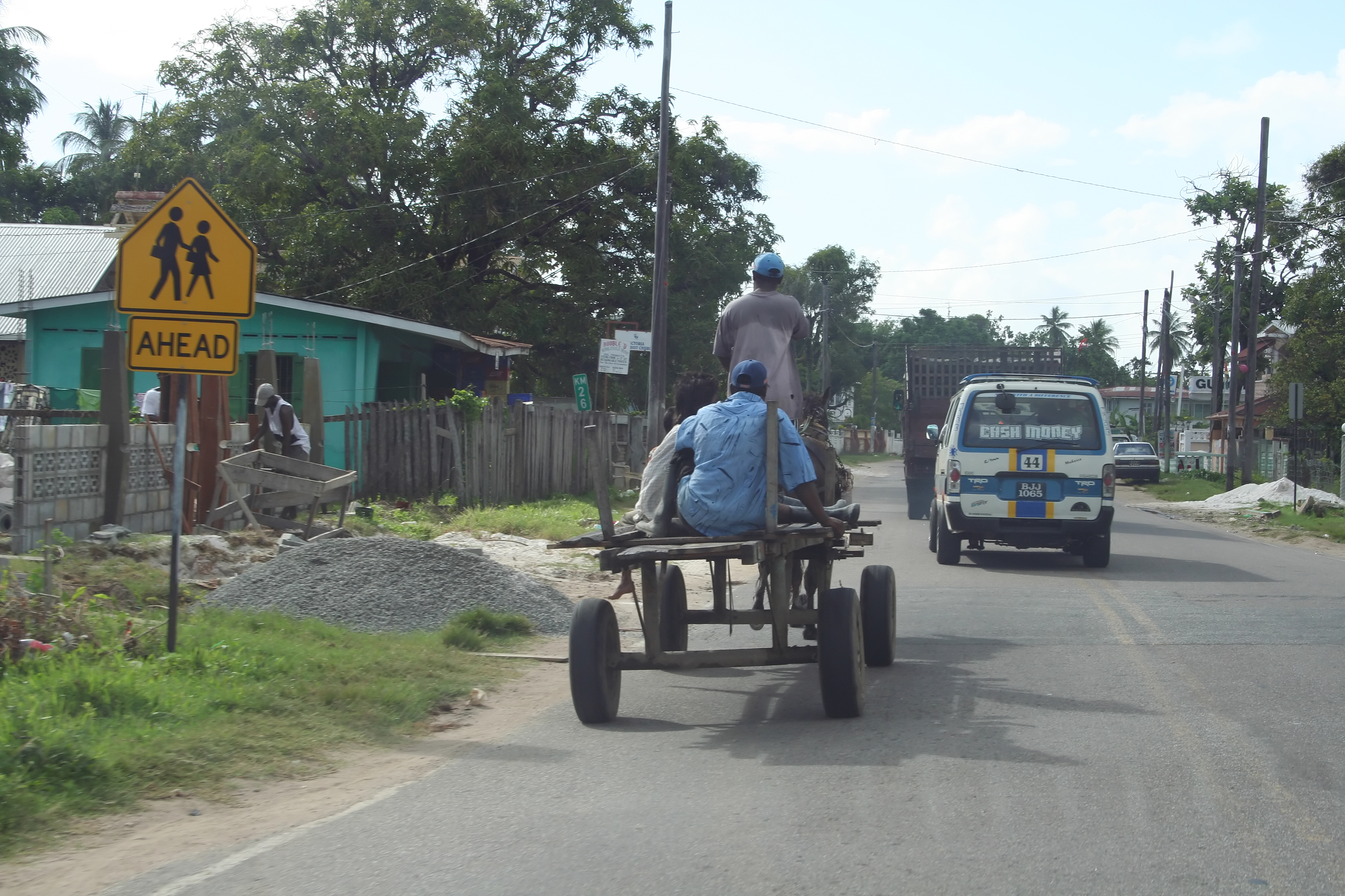 Description on flickr: Heading to Rosignol [Demerara, Guyana]